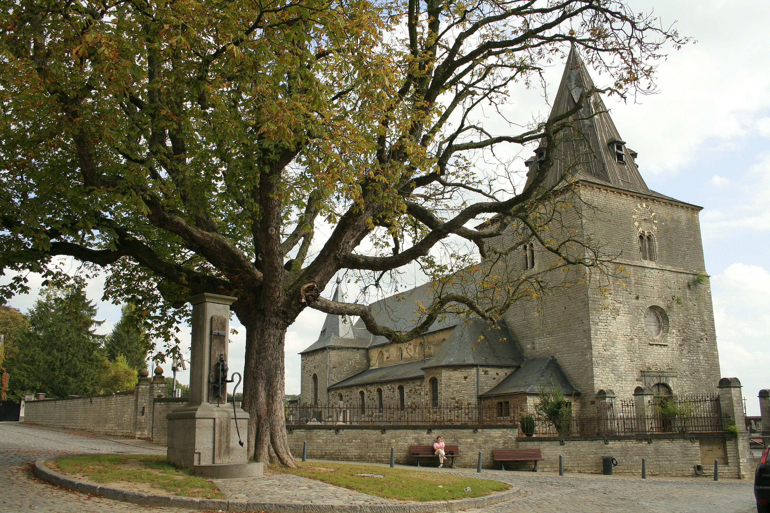 Tourinnes-la-Grosse (Belgium), the St. Martin’s church (XIth century).